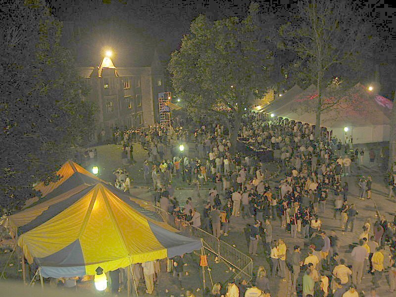 Crowd at Princeton University reunions, 2003. © 2005 Joseph Barillari